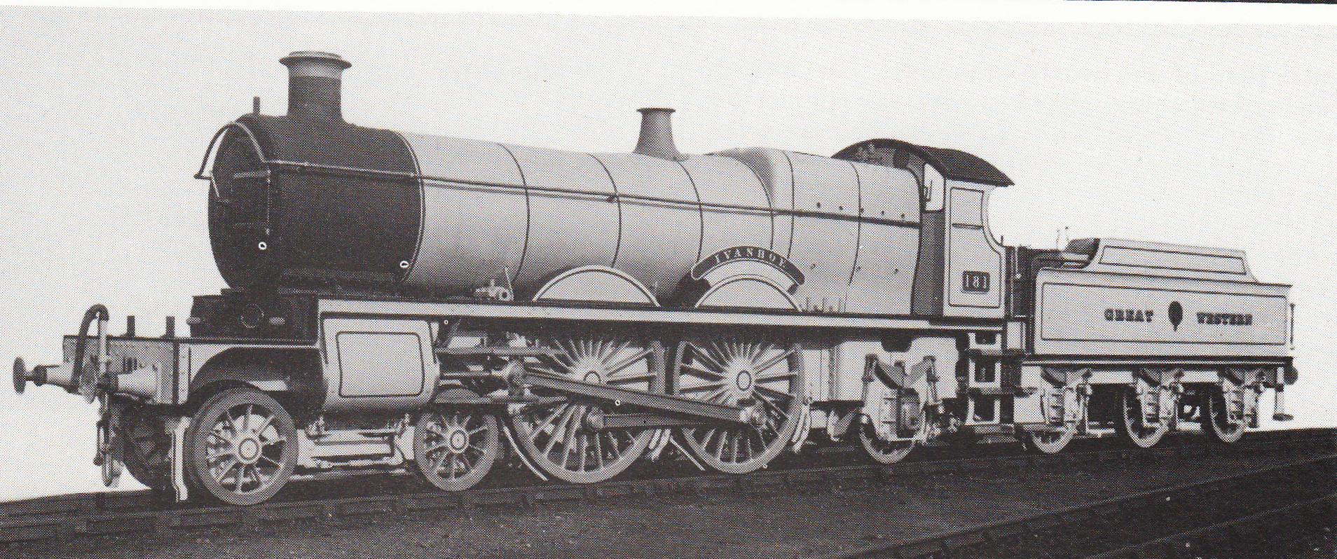 GWR 2900 Class No. 181 as built as a 4-4-2 in 1905